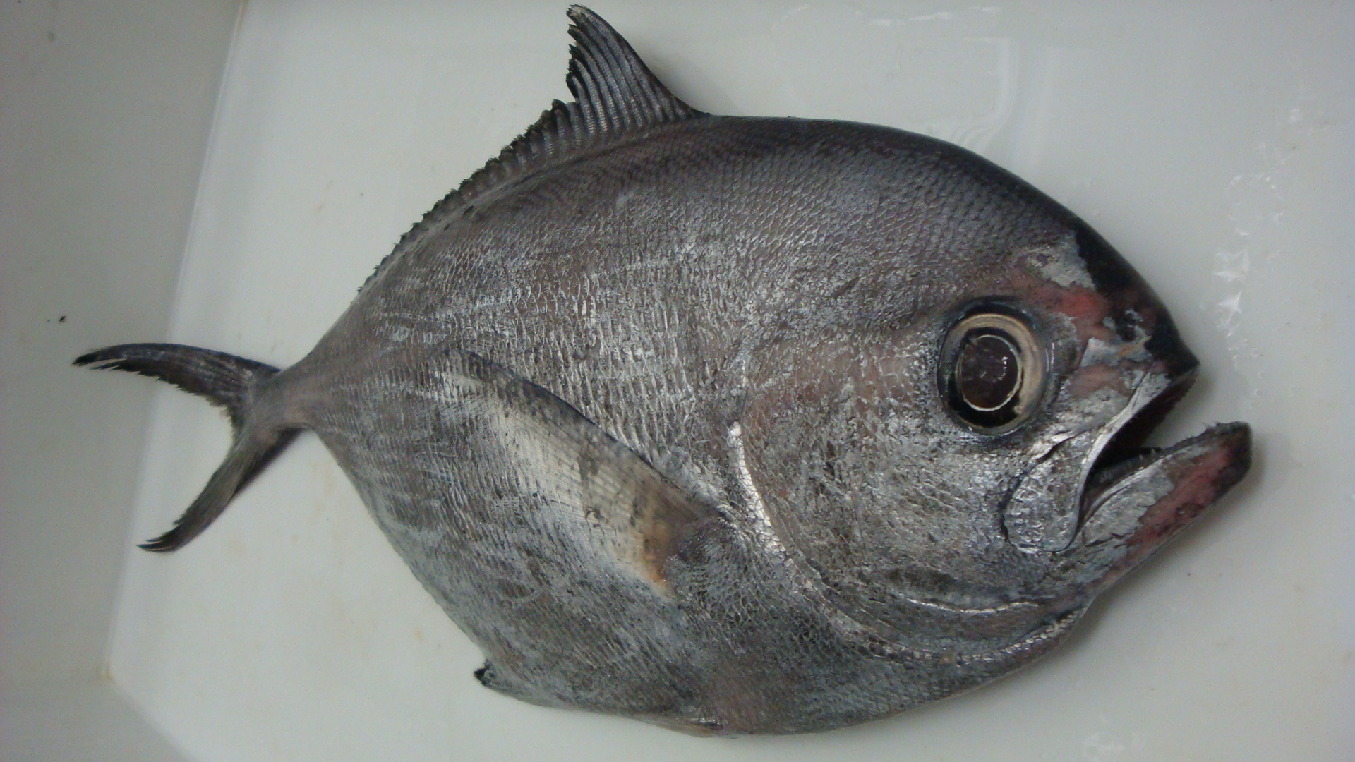 Grande castagnole pêchée au chalut en Mer du nord et ramenée au centre de découverte de la pêche en Mer "Mareis" à Etaples sur Mer le 03/01/2010